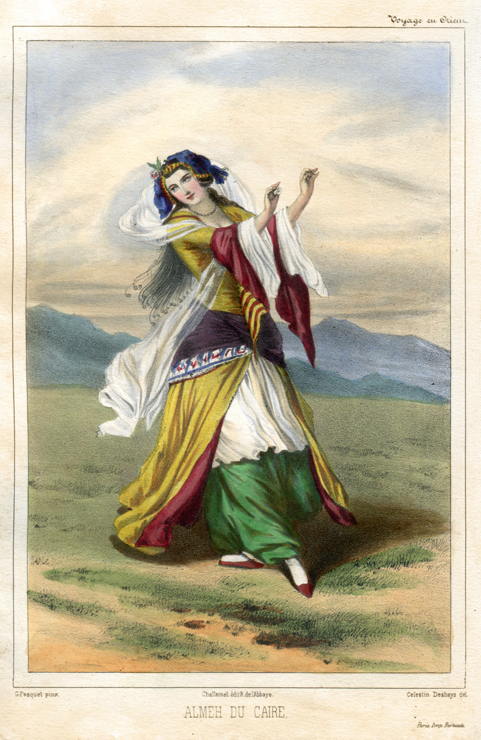 Almeh du Caire - Goupil-fesquet Frédéric Auguste Antoine - 1843